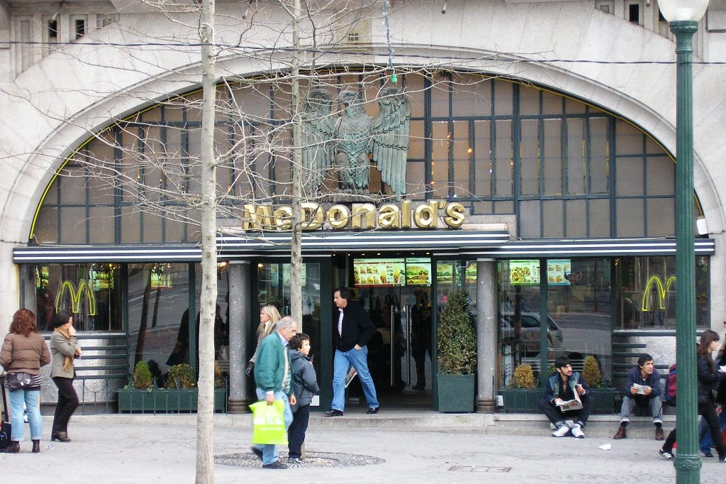 Former "Café Imperial" in Porto, Portugal, now transformed into a McDonald's. Author: Manuel de Sousa